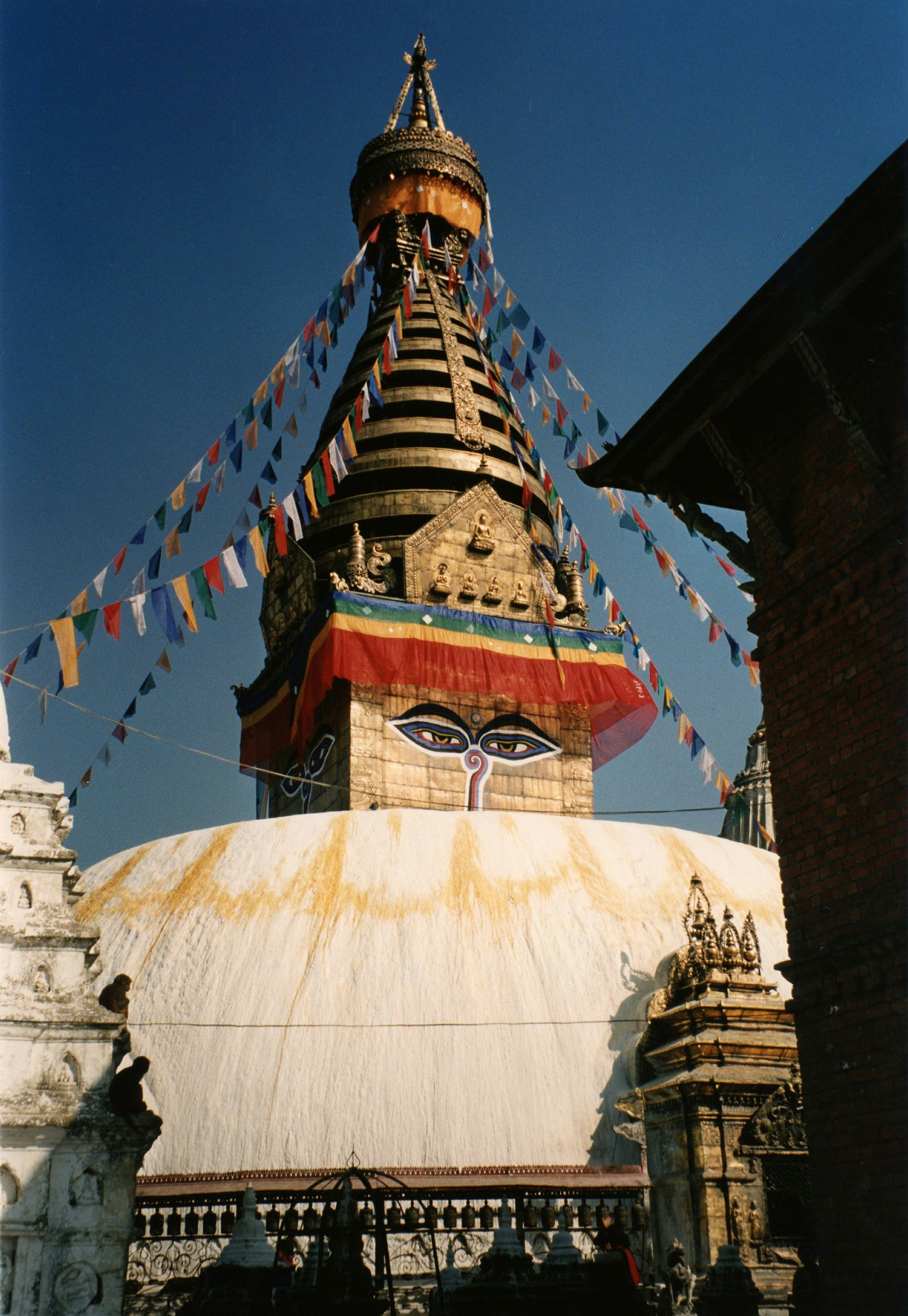 Swayambhunath stupa near Kathmandu, Nepal